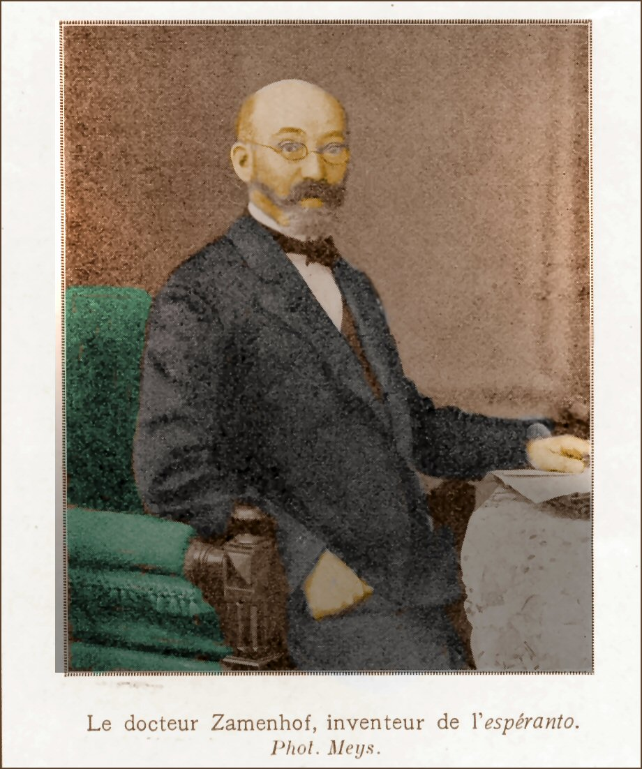 Doctor Zamenhof, creator of Esperanto